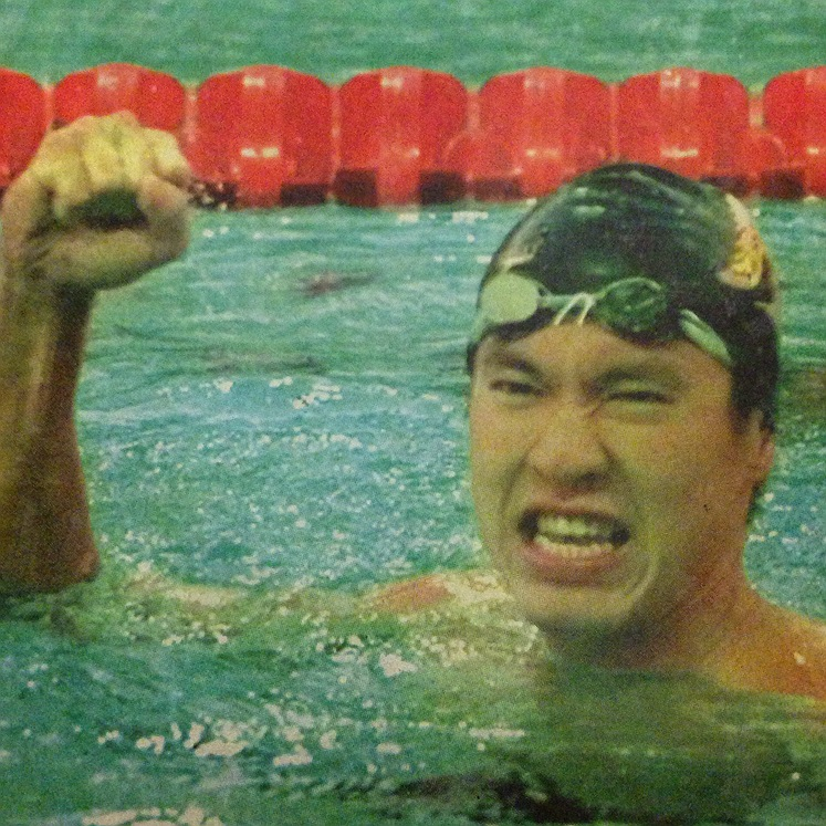 vicha ratanachote